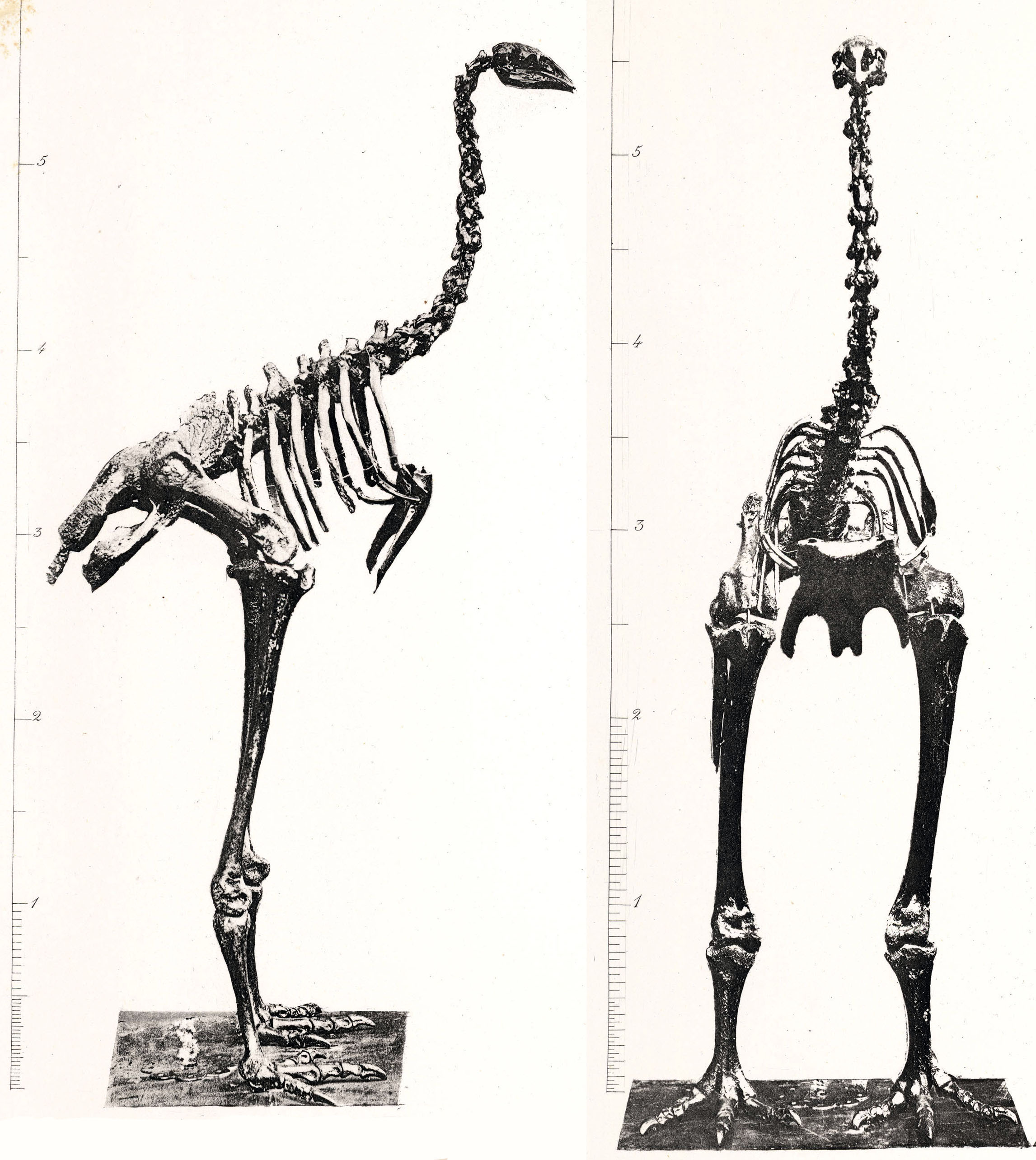 Dinornis gracilis from the North Island (Dinornis struthioides, the male of Dinornis novaezealandiae).